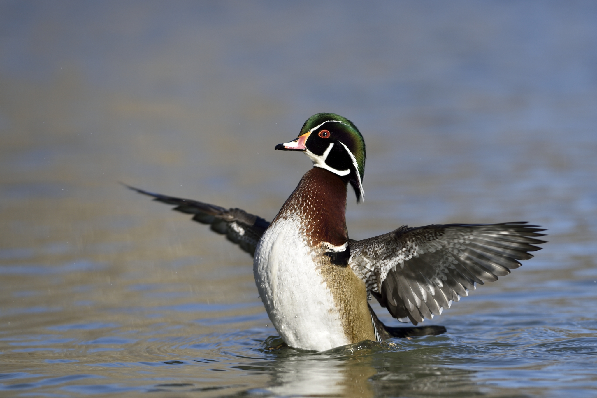 This wood duck with deployed wings is shooting at des milles iles river, southwestern Quebec